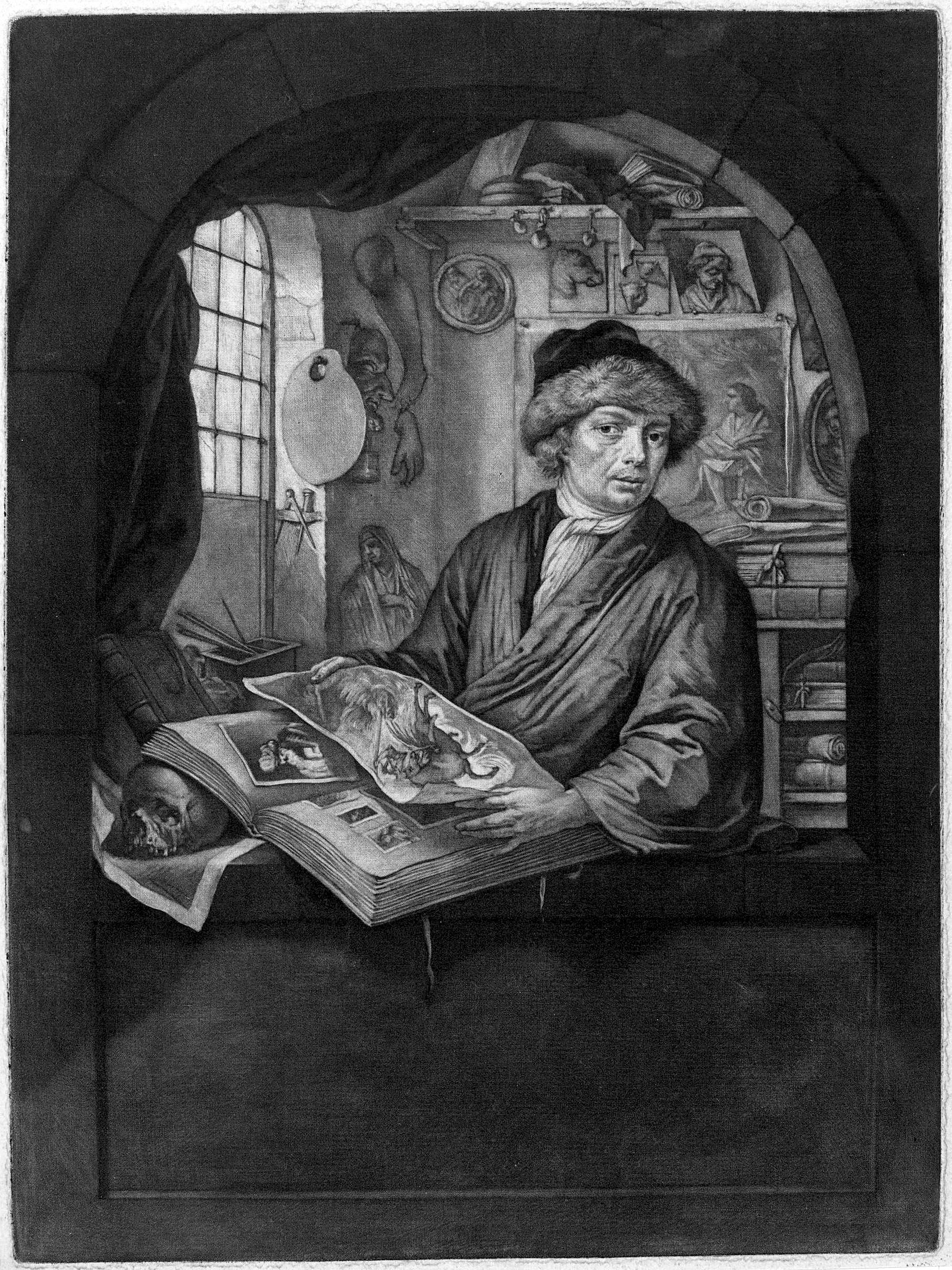 Jacob Moelaert mezzotint engraving on paper 1683 - 1746